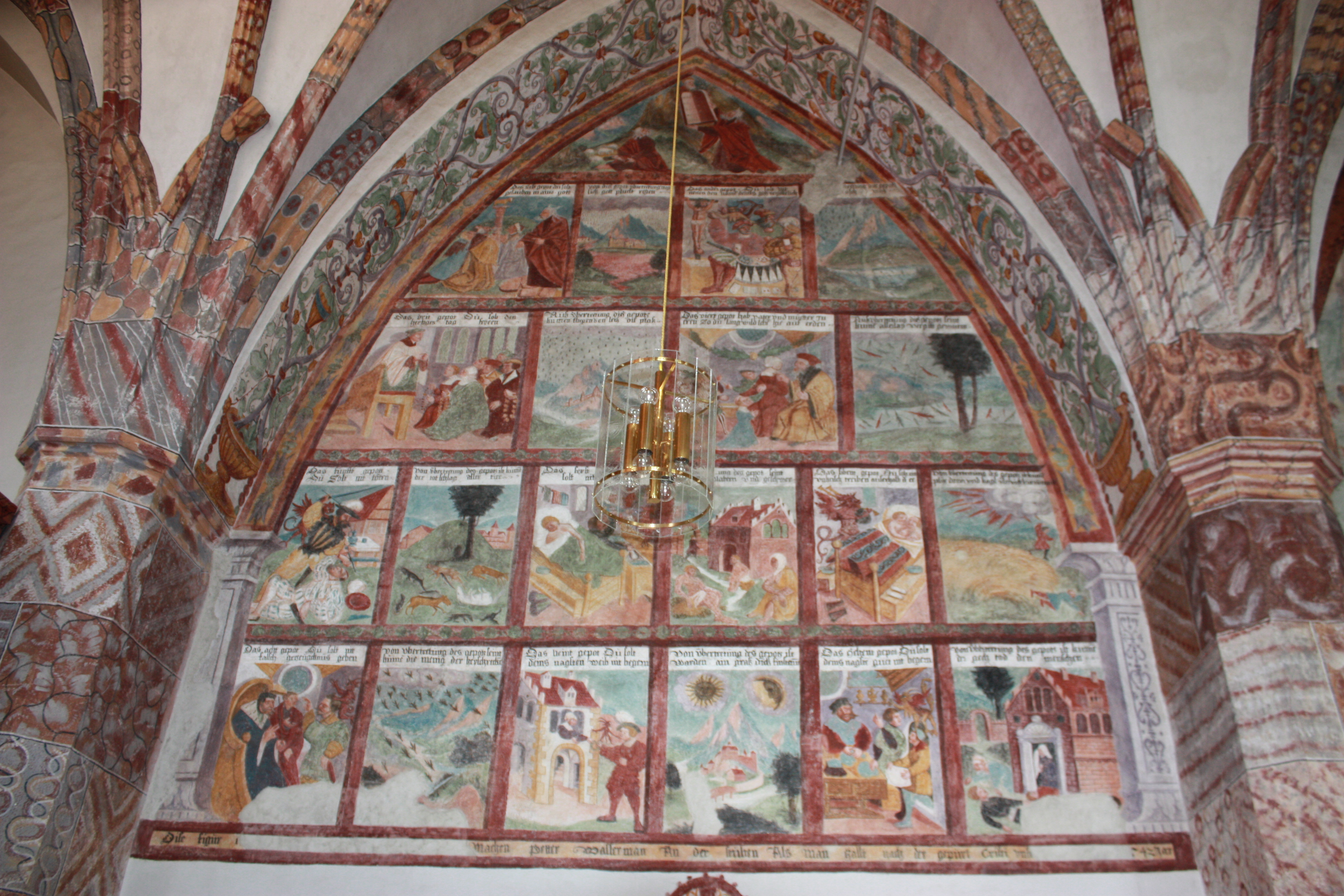 Parish church Saint Leonhard - Ten-comitment-frescos Locality: Weißenstein Community: Weißenstein